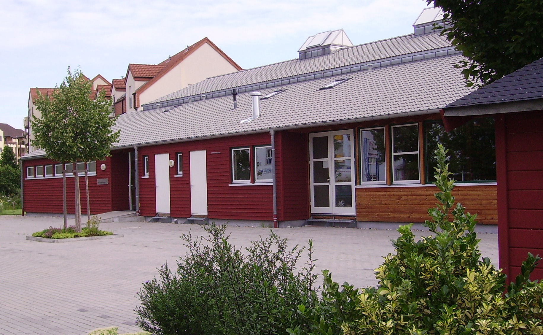 view of Limburgerhof, Germany